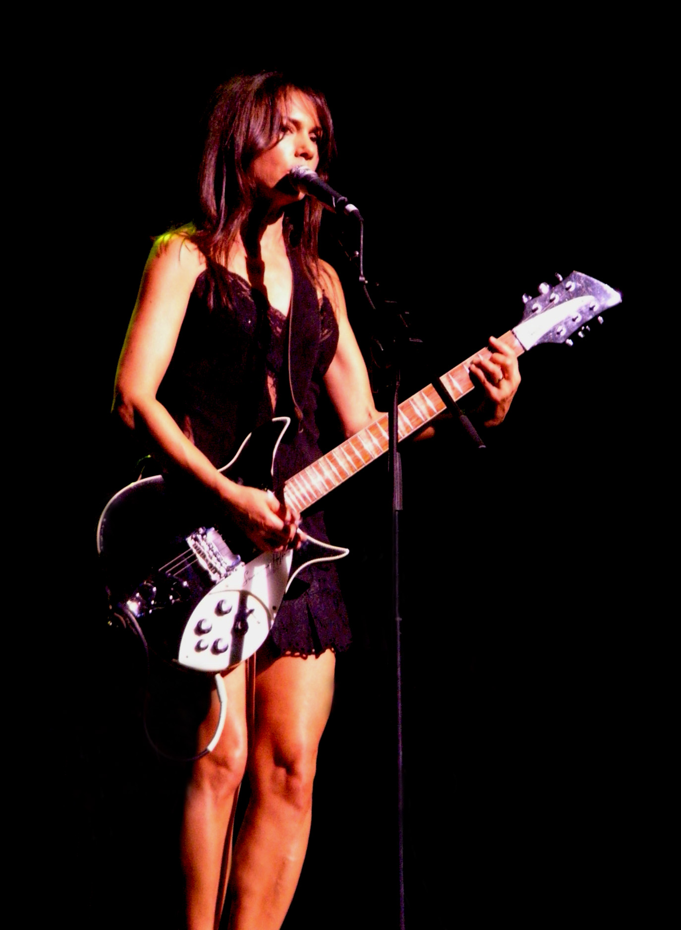 Susanna Hoffs of The Bangles performing live in Sydney. 22 Oct 2010.